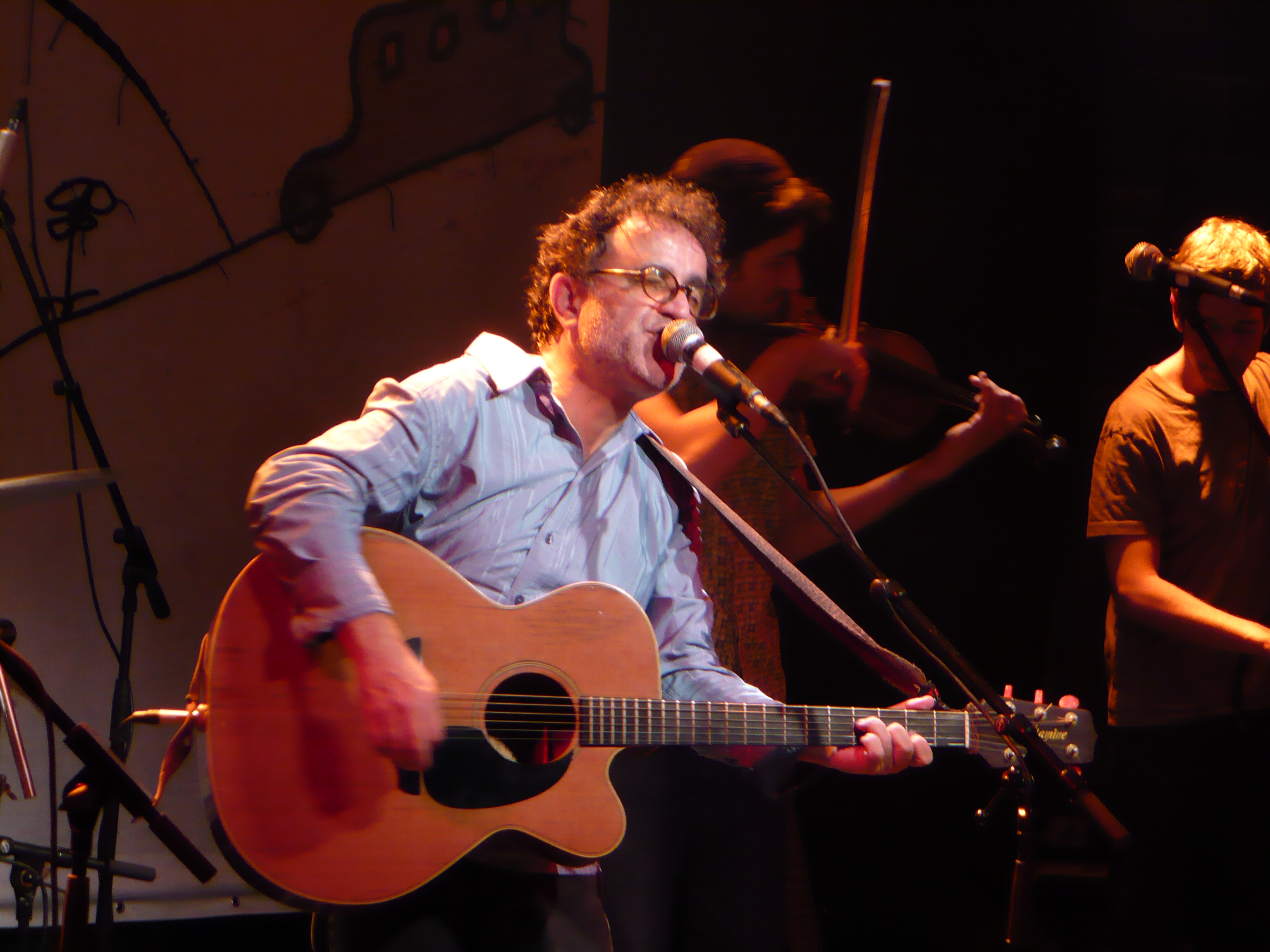 Ehud Banai at a concert